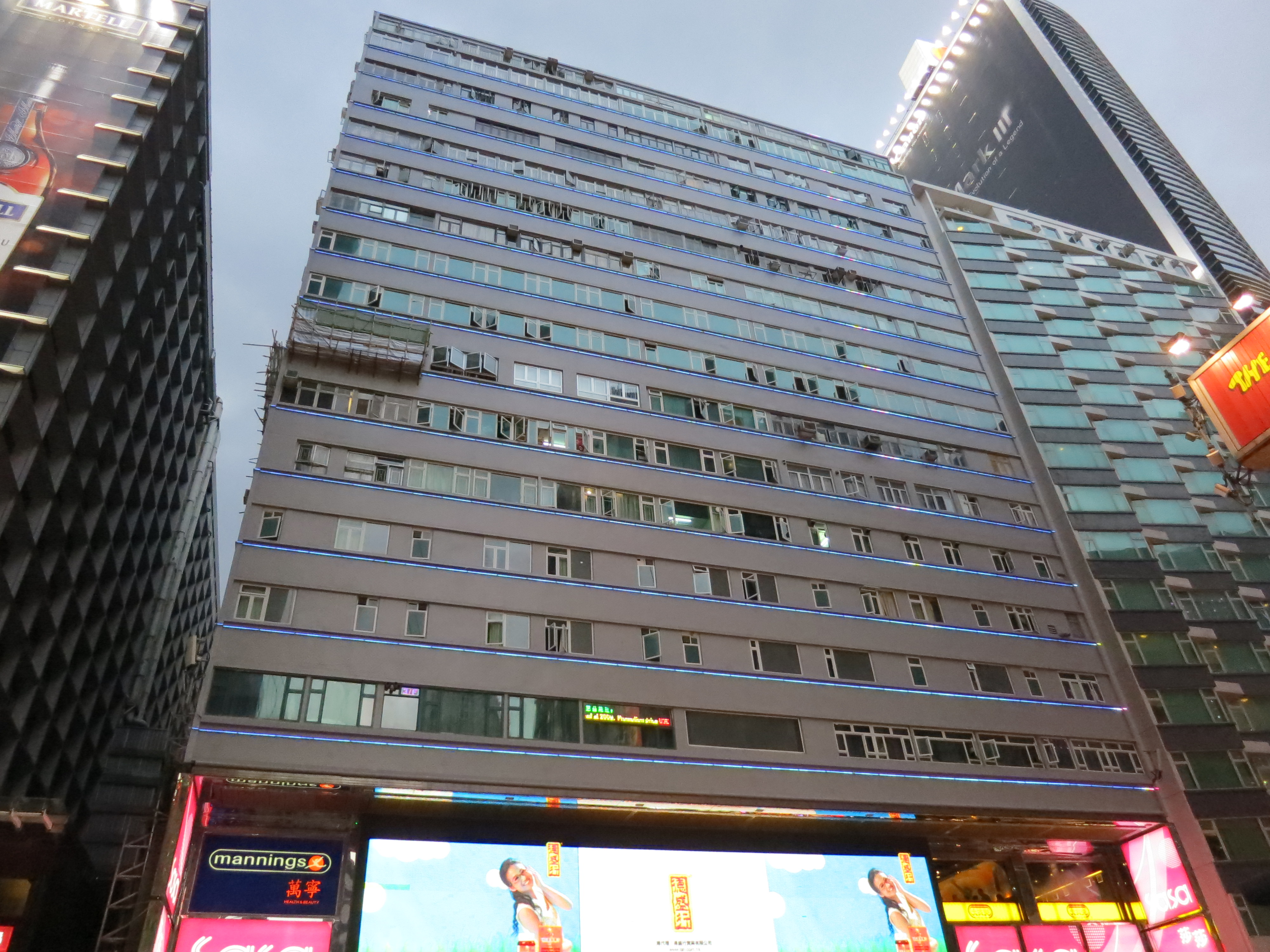 Chung King Mansions in 2012.jpg